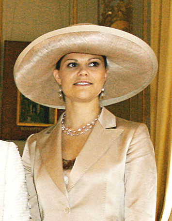 Victoria, crown princess of Sweden.